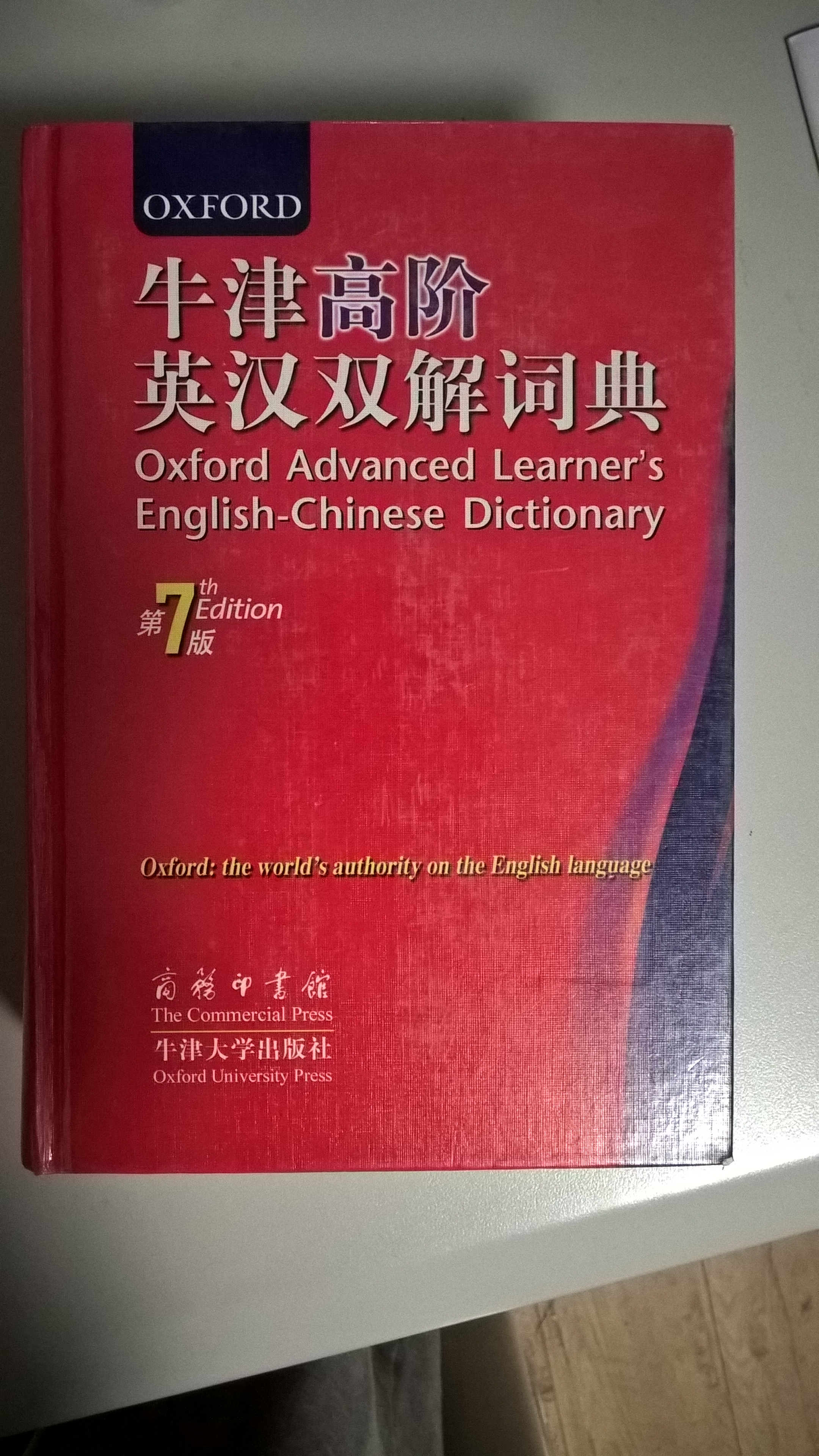 Oxford Advanced Learner's English-Chinese Dictionary 7th Edition (Simplified Chinese Ver.)